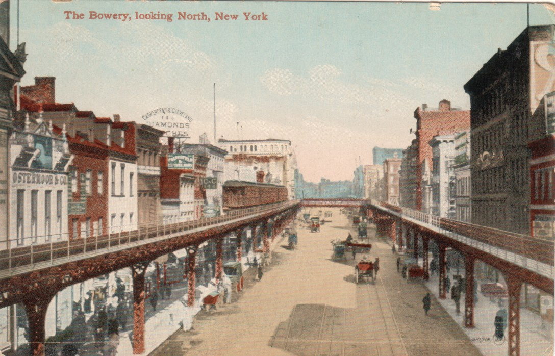 Postcard from around 1910. Looking north on Bowery between Grand and Broome Streets.